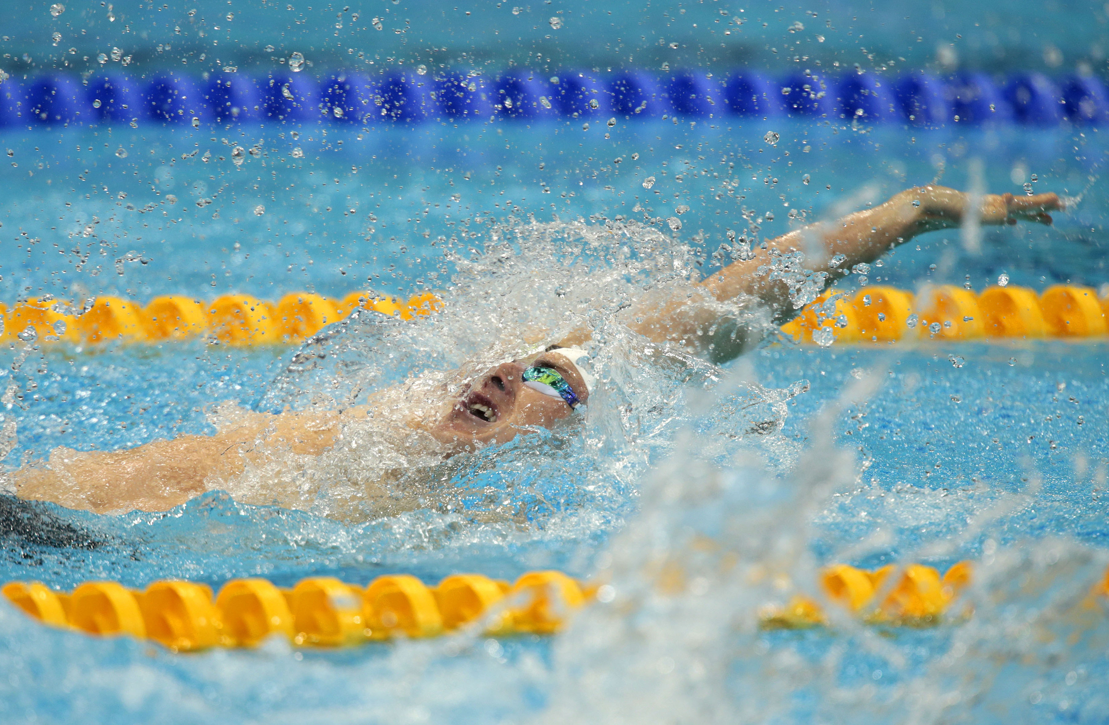 Photograph of Australian Paralympic team member Michael Anderson at the 2012 Summer Paralympic Games in London